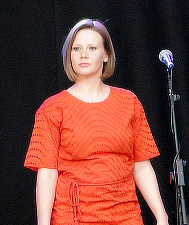 Debbie Hanna of Megson at the Cambridge Folk Festival, July 2012